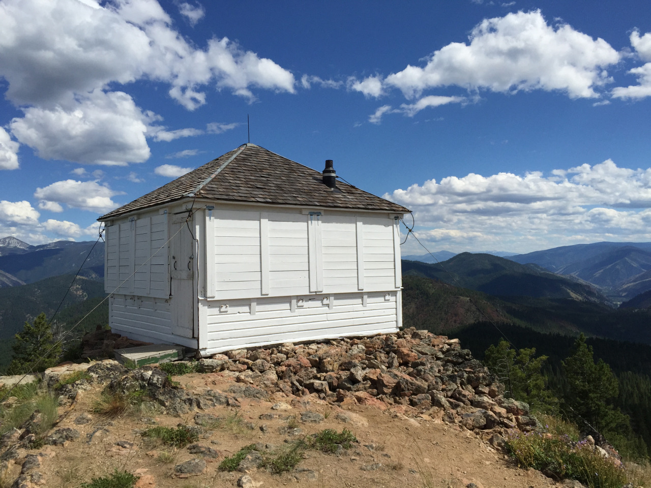 Look Out